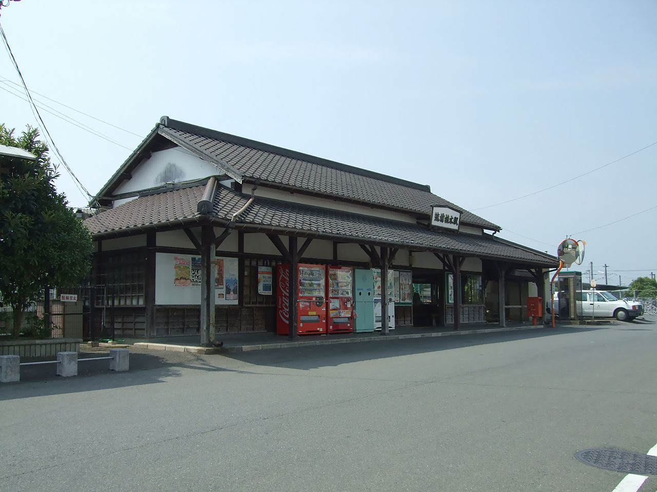 Chikuzen-Ueki Station, Chikuho Main Line, Kyushu Railway Company.